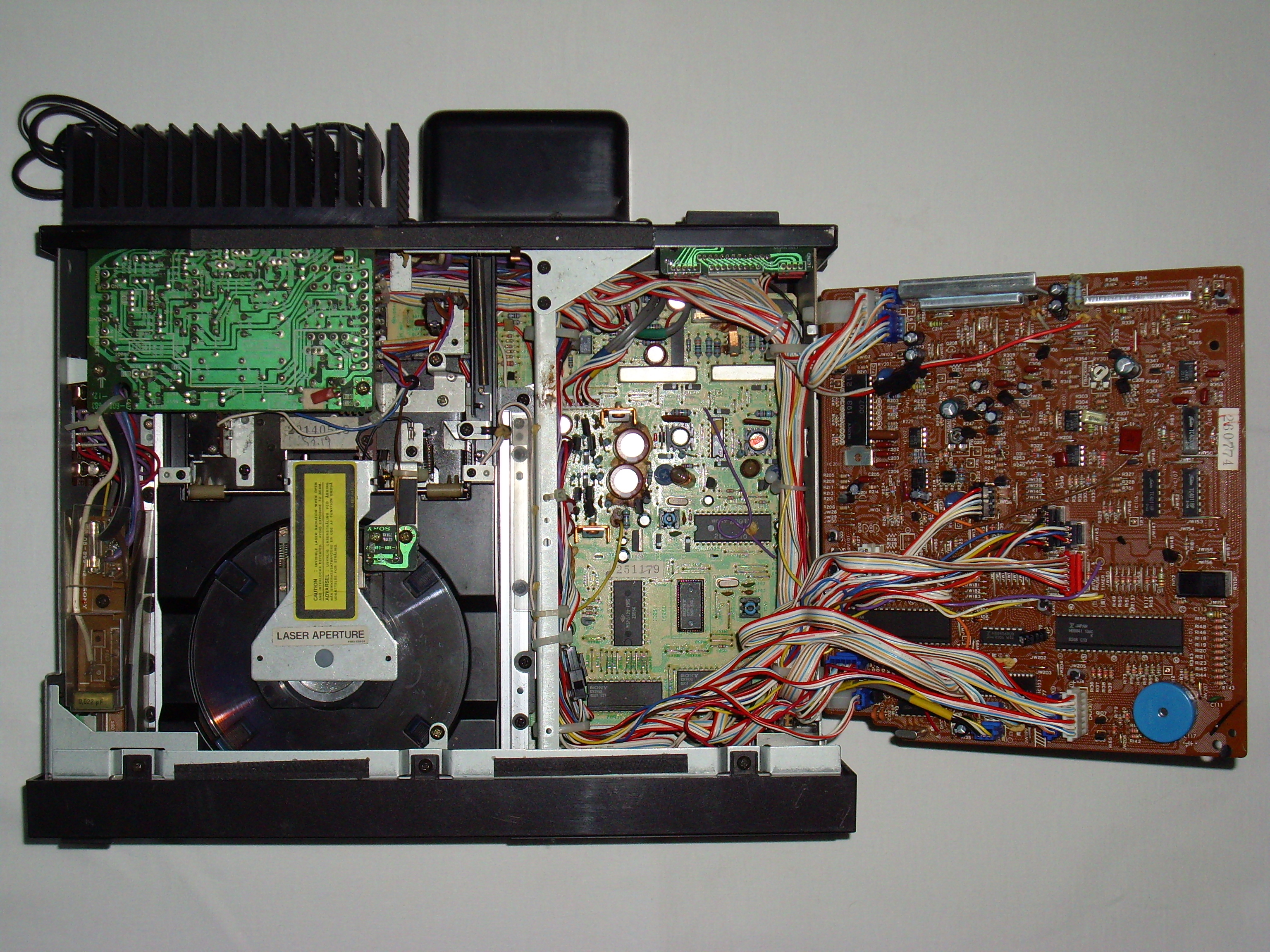 Inside CDP-101, 1st generation CD player from Sony